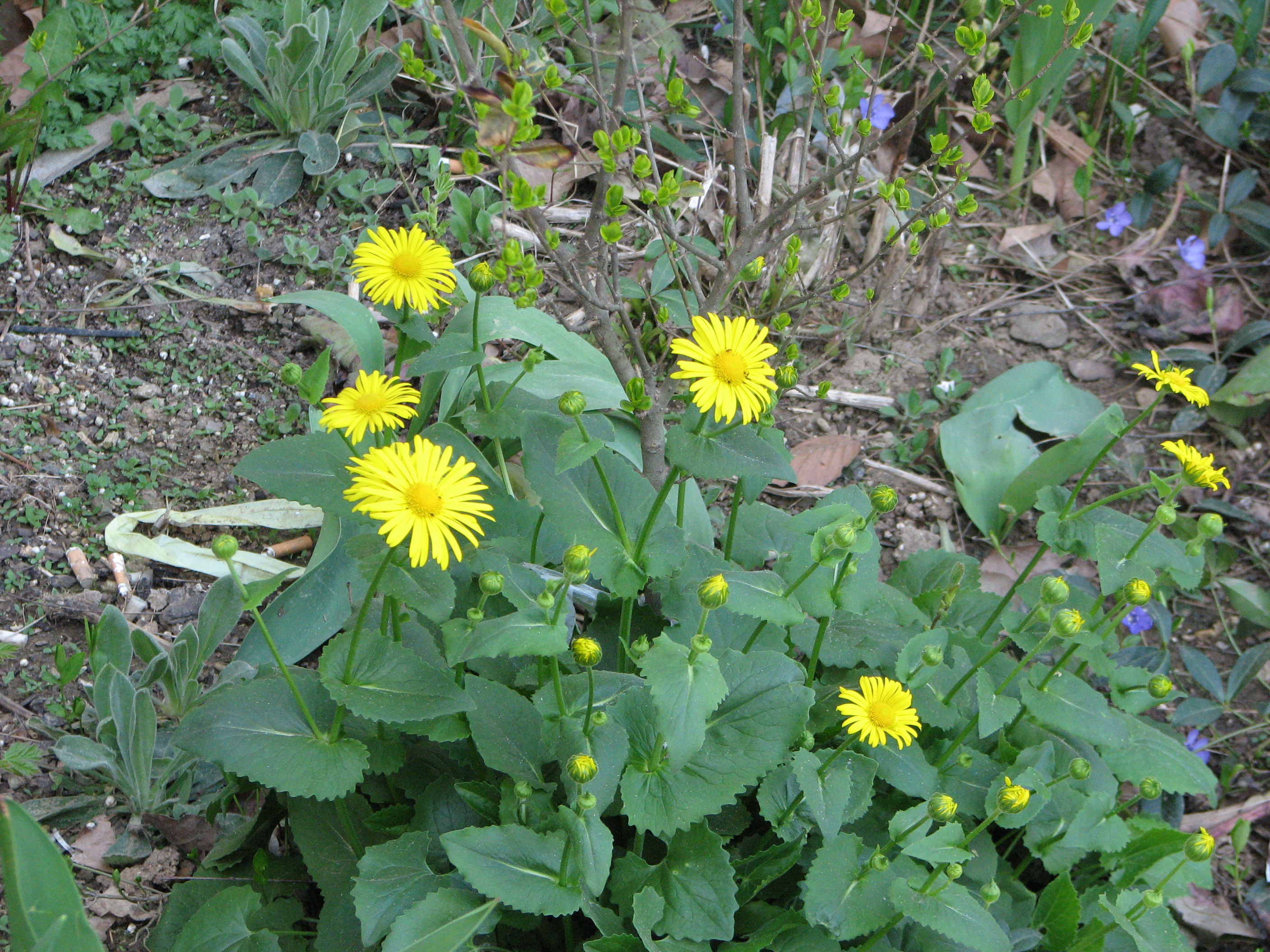 Doronicum austriacum